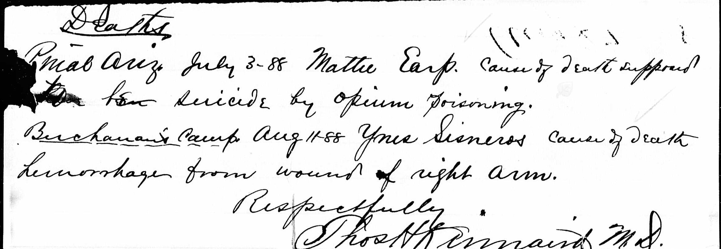 Death Record certificate by Medical Doctor